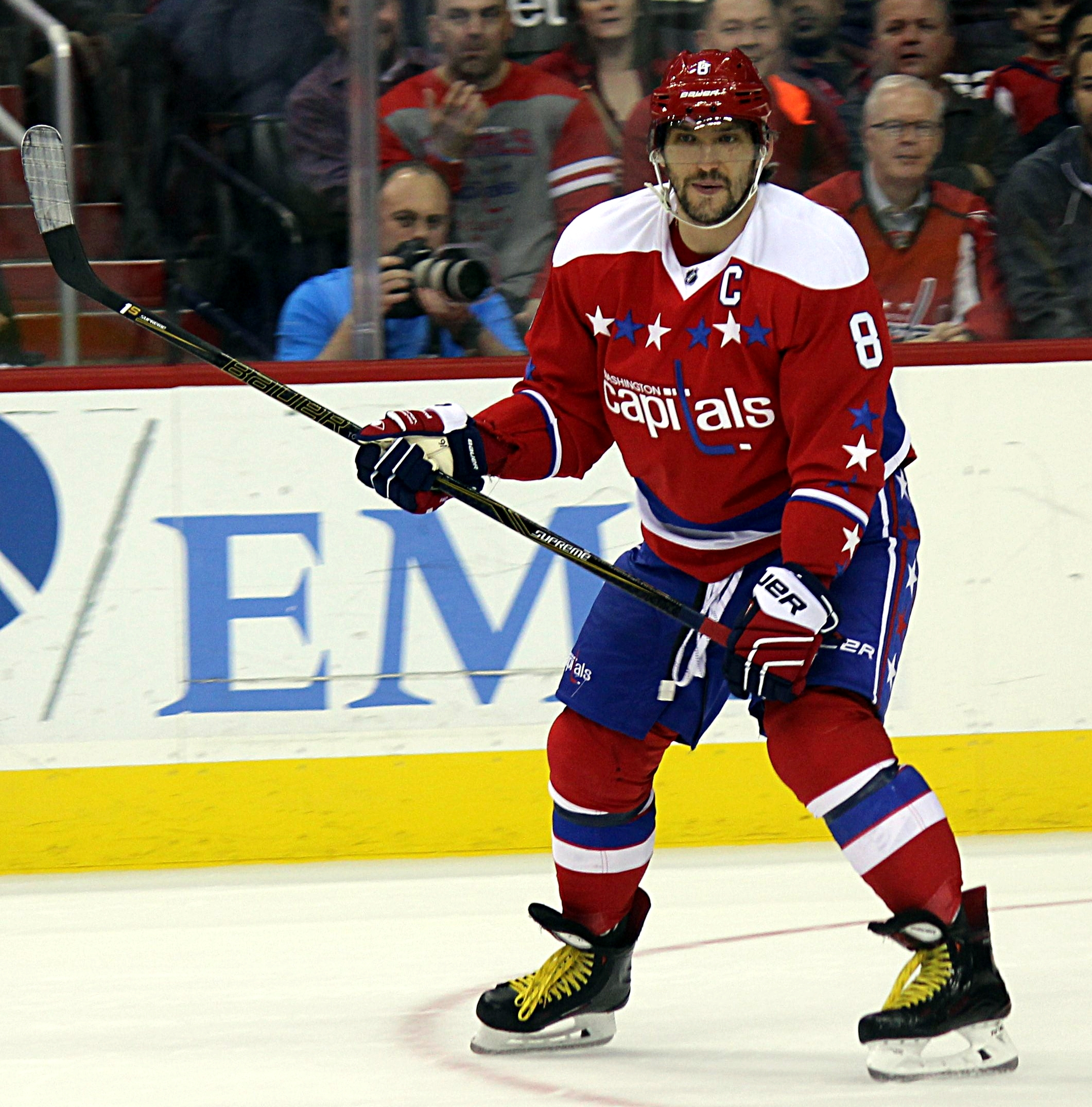 Washington Capitals captain Alexander Ovechkin warms up prior to a game against the Pittsburgh Penguins, March 1, 2016, at Verizon Center in Washington, D.C.